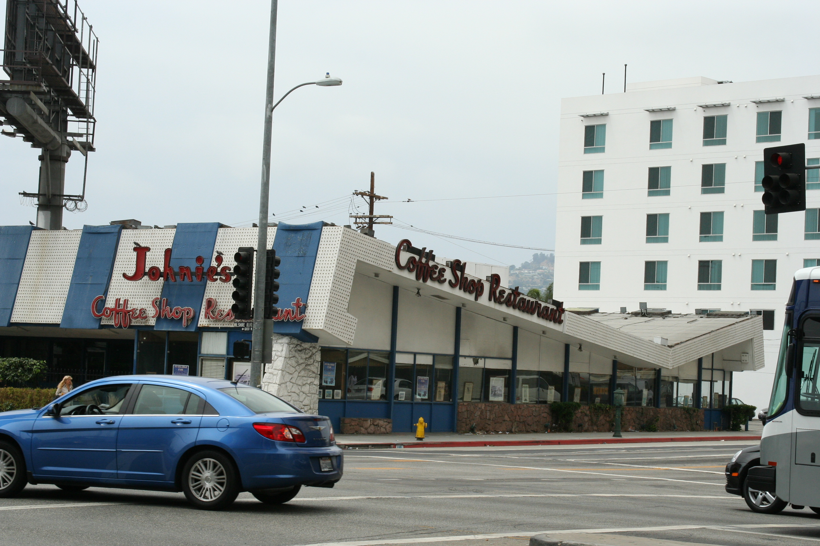 Johnie's Coffee Shop on Wilshire Boulevard, Los Angeles 2009. Designed by Armet & Davis and known as an example of Googie architecture. by ChildofMidnight, attribution required